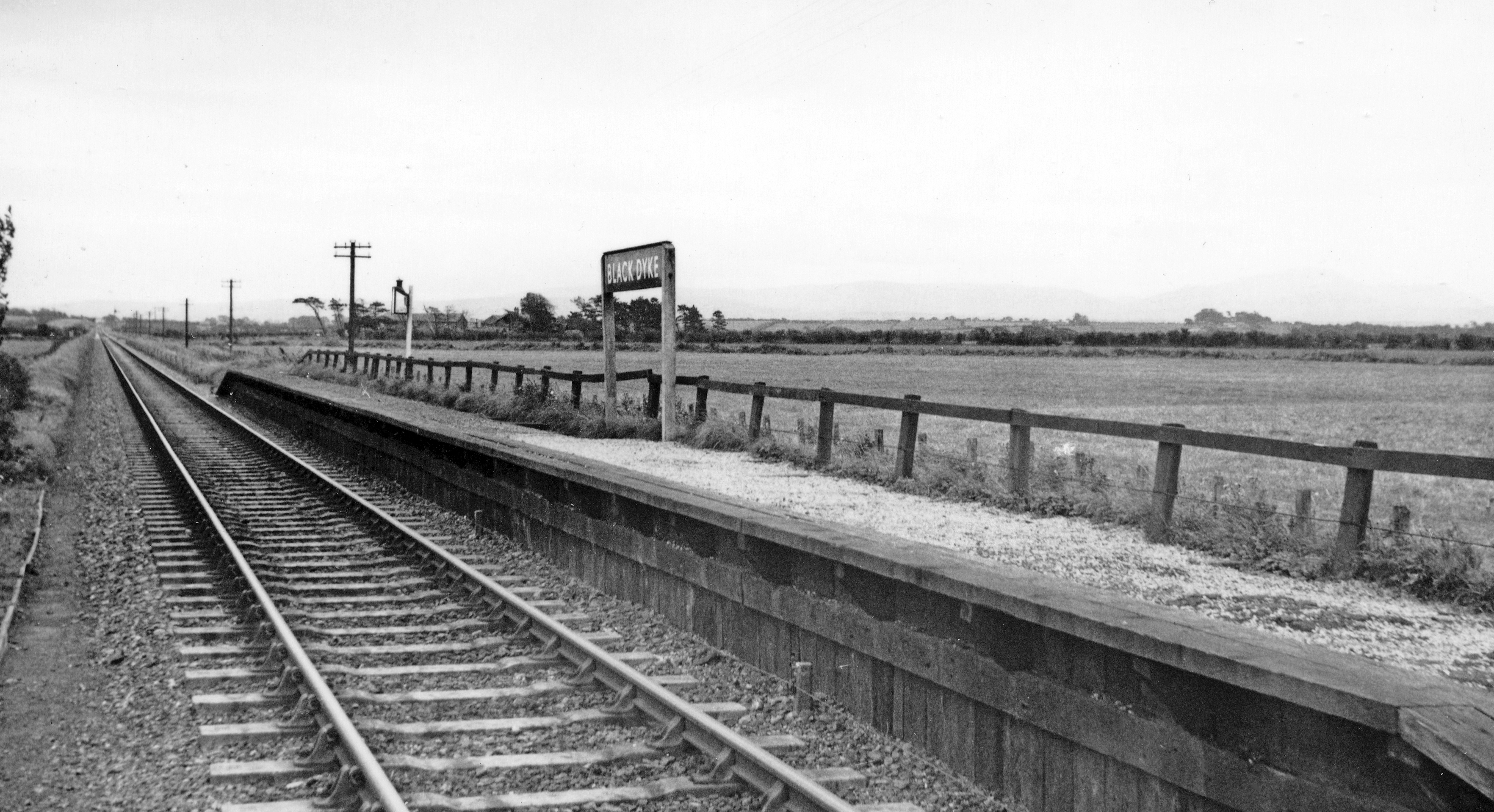 Black Dyke Halt. View SE, towards Carlisle; ex-NB Carlisle - Silloth line. Halt and line closed permanently 7/9/64.